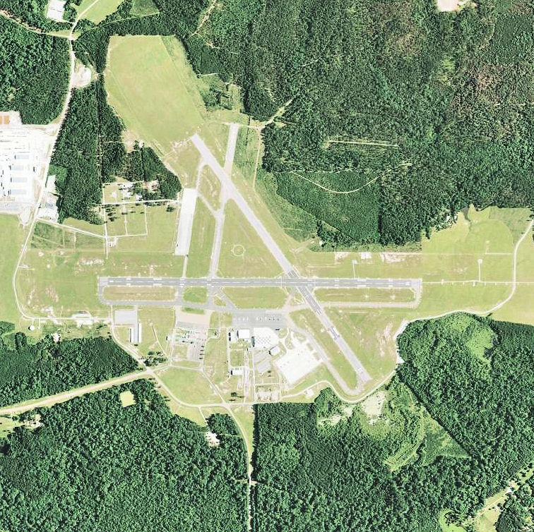 USGS digital orthophoto of Esler Airfield in Louisiana